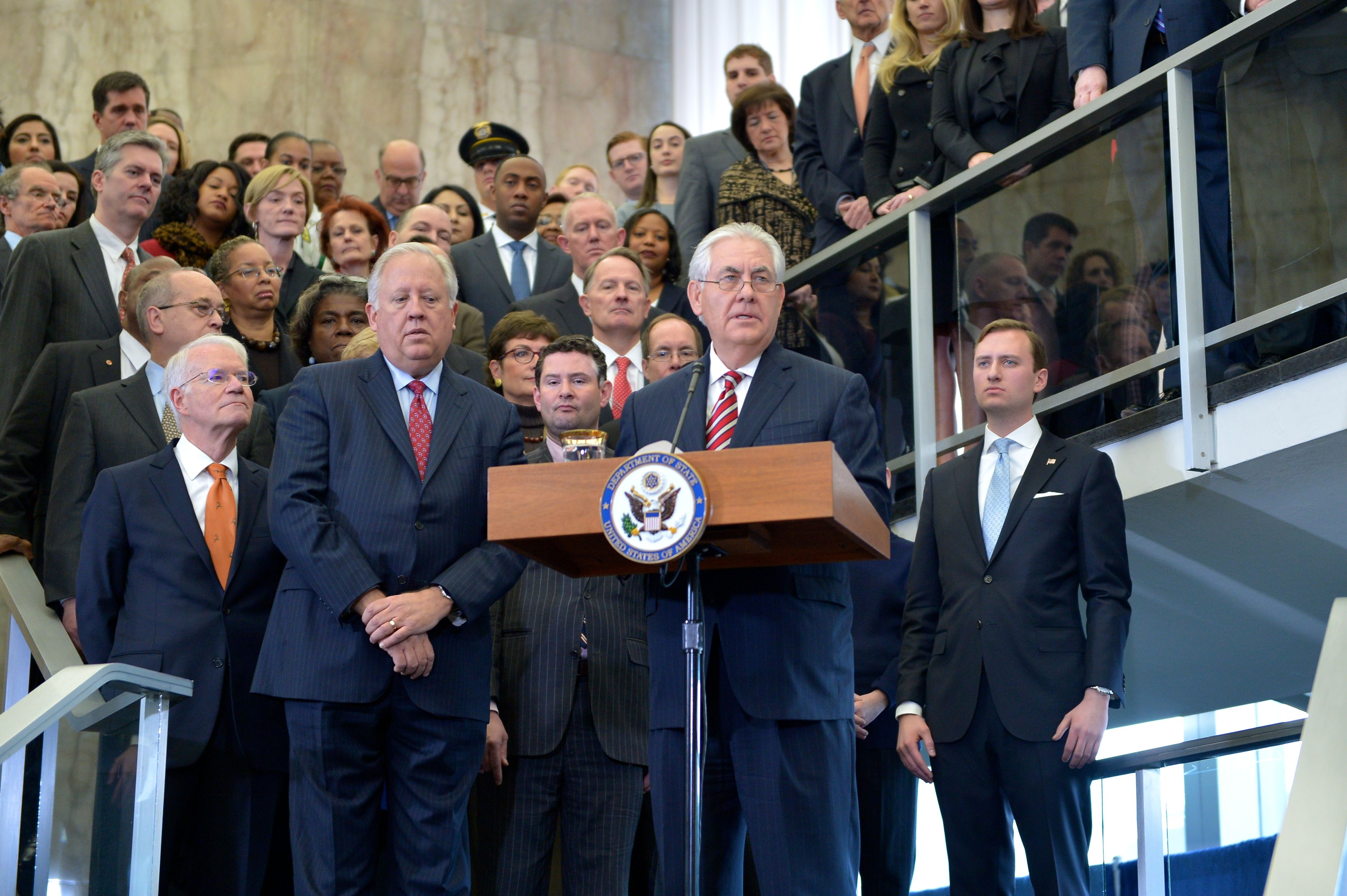 U.S. Secretary of State Rex Tillerson delivers welcome remarks to State Department employees in the main lobby of the Department's Harry S. Truman building on his first day as Secretary of State in Washington, D.C., on February 2, 2017. [State Department photo/ Public Domain]